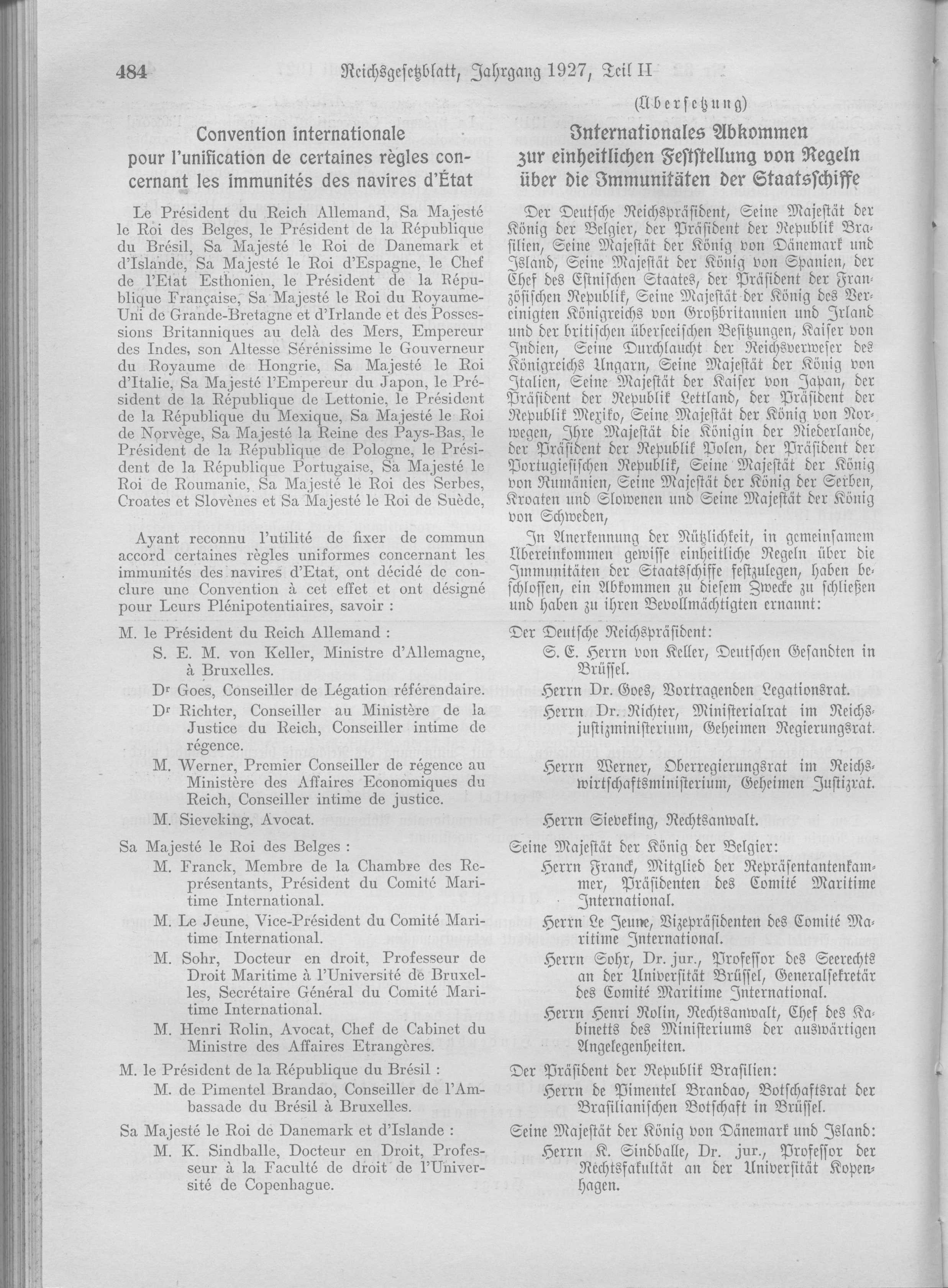 Scan from the Imperial Law Gazette of Germany, 1927, part 2